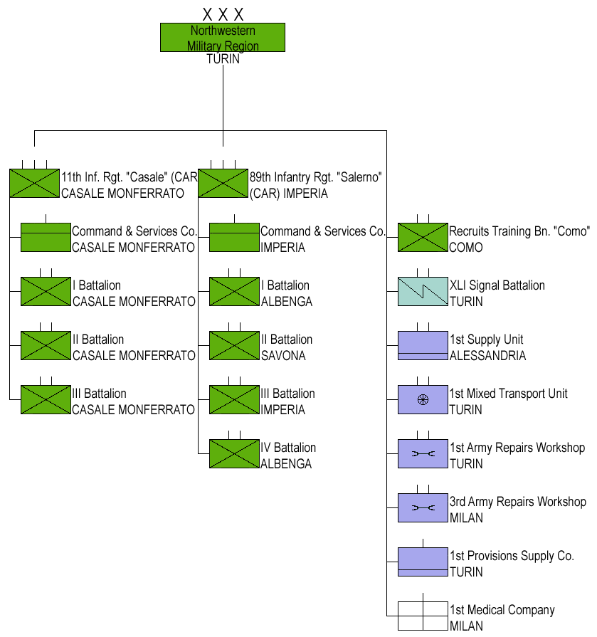 Structure of the Italian Army's North-Eastern Military Region in 1974